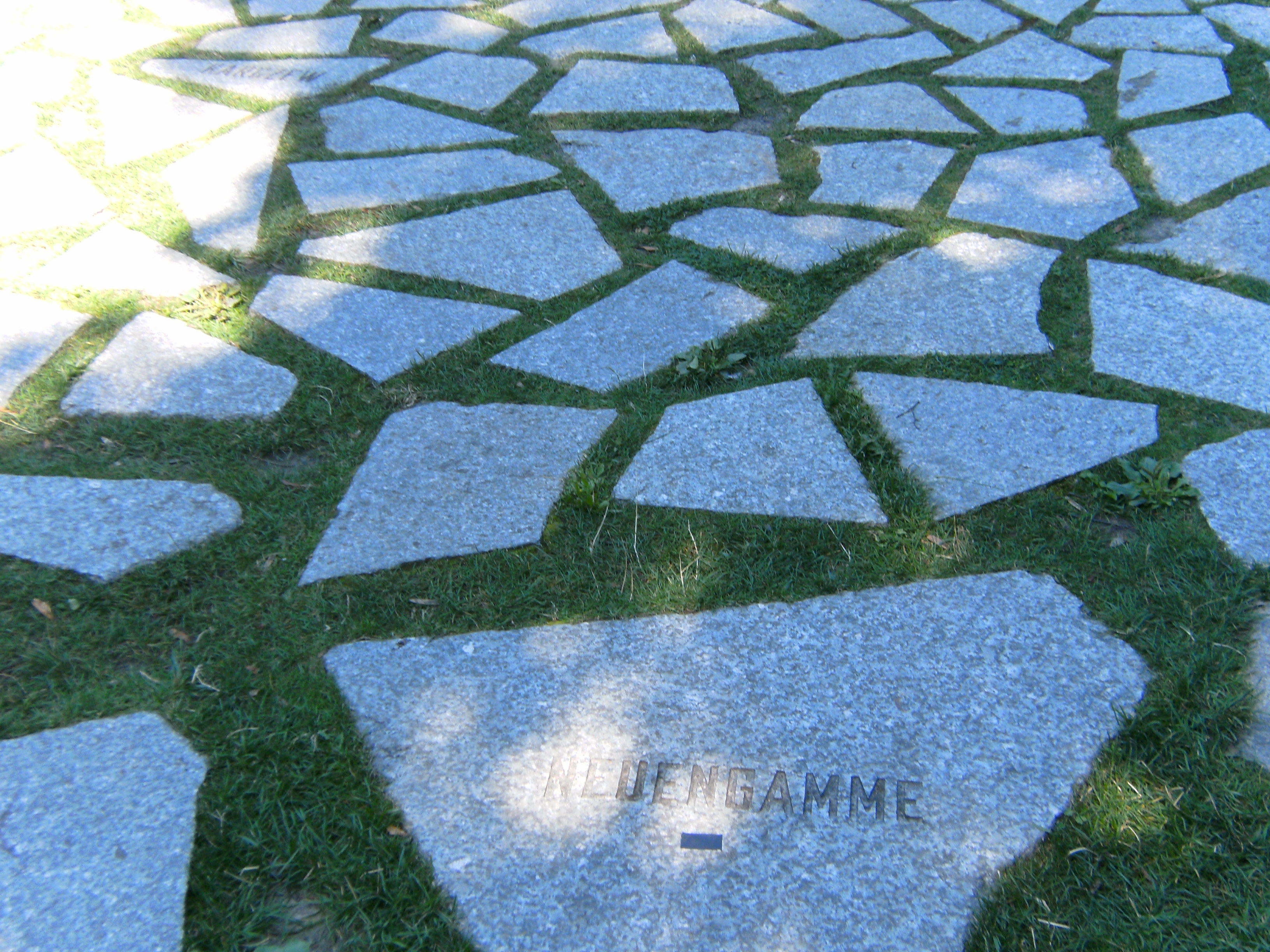 Memorial in the park Tiergarten in Berlin south of Reichstagsgebäude (parliament) to the Sinti and Roma of Europe murdered under National Socialism in Berlin: paving stone with inscription to remember Neuengamme.